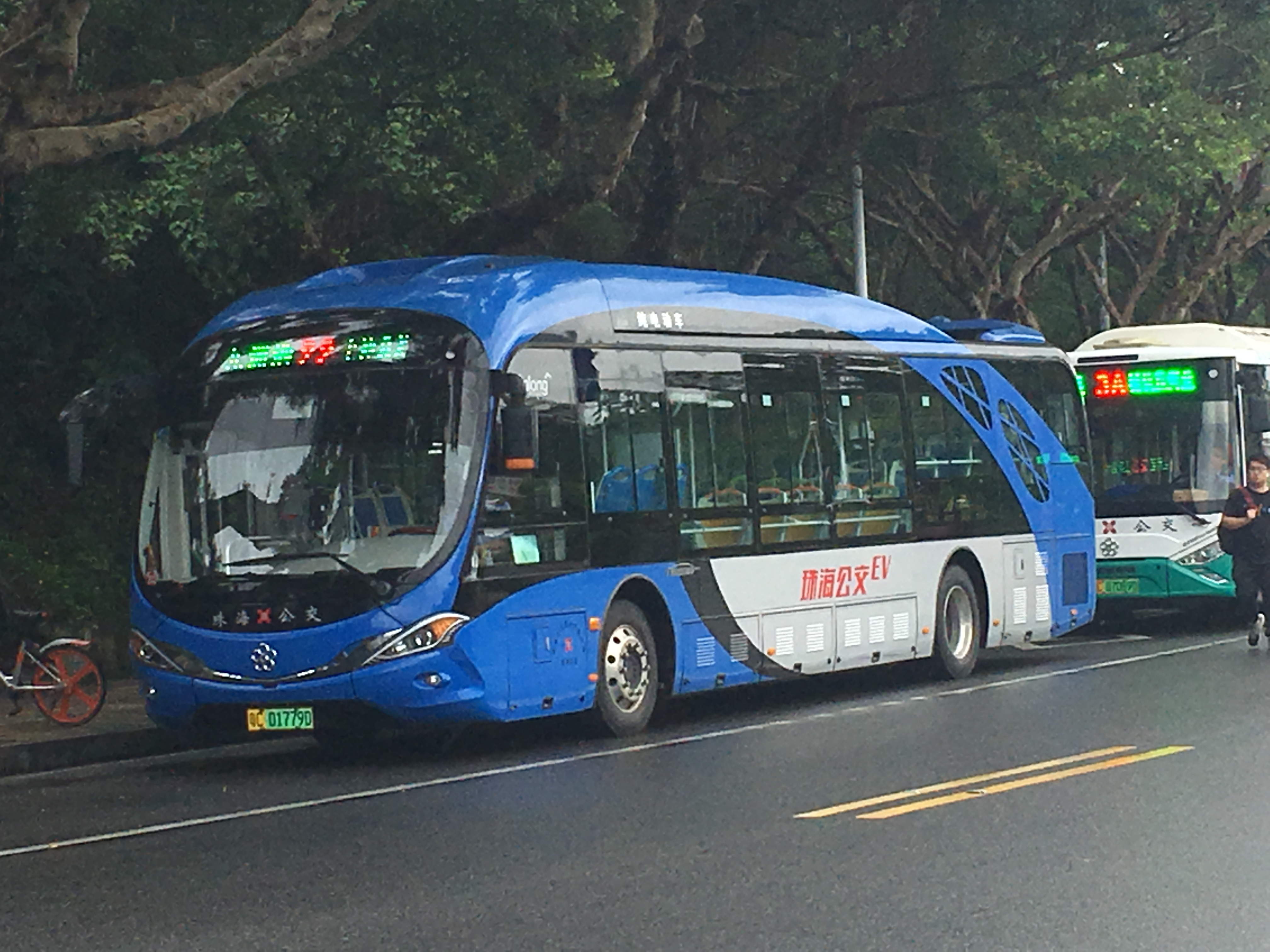 中文（香港）: This photo is taken in Jiuzhou Port.